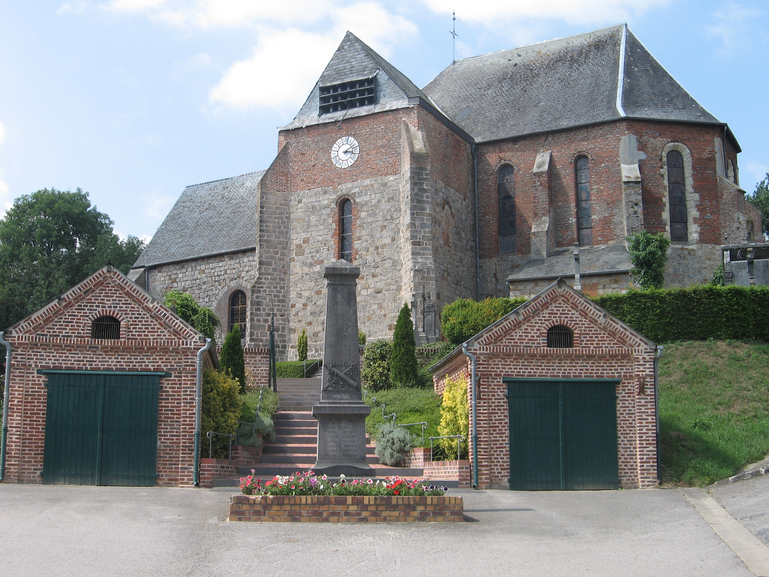 St-Quentin church of Voulpaix